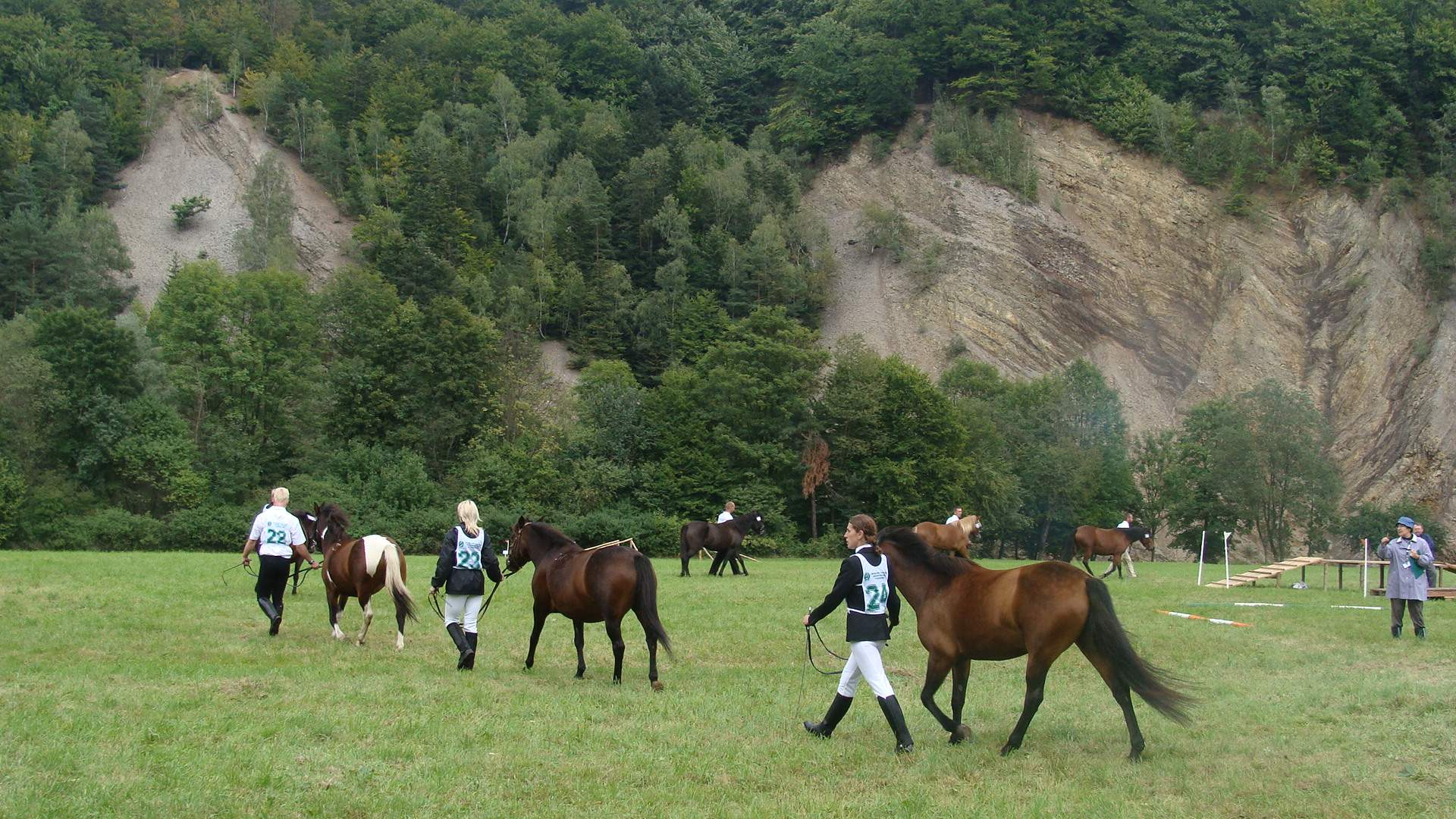 The Regional Pony Rally in Rudawka Rymanowska, (pl.) Regionalny Championat Konia Huculskiego will attract riders and their ponies from several states to compete in Tetrathlon, Show Jumping, Dressage, and Eventing. Included with park admission.